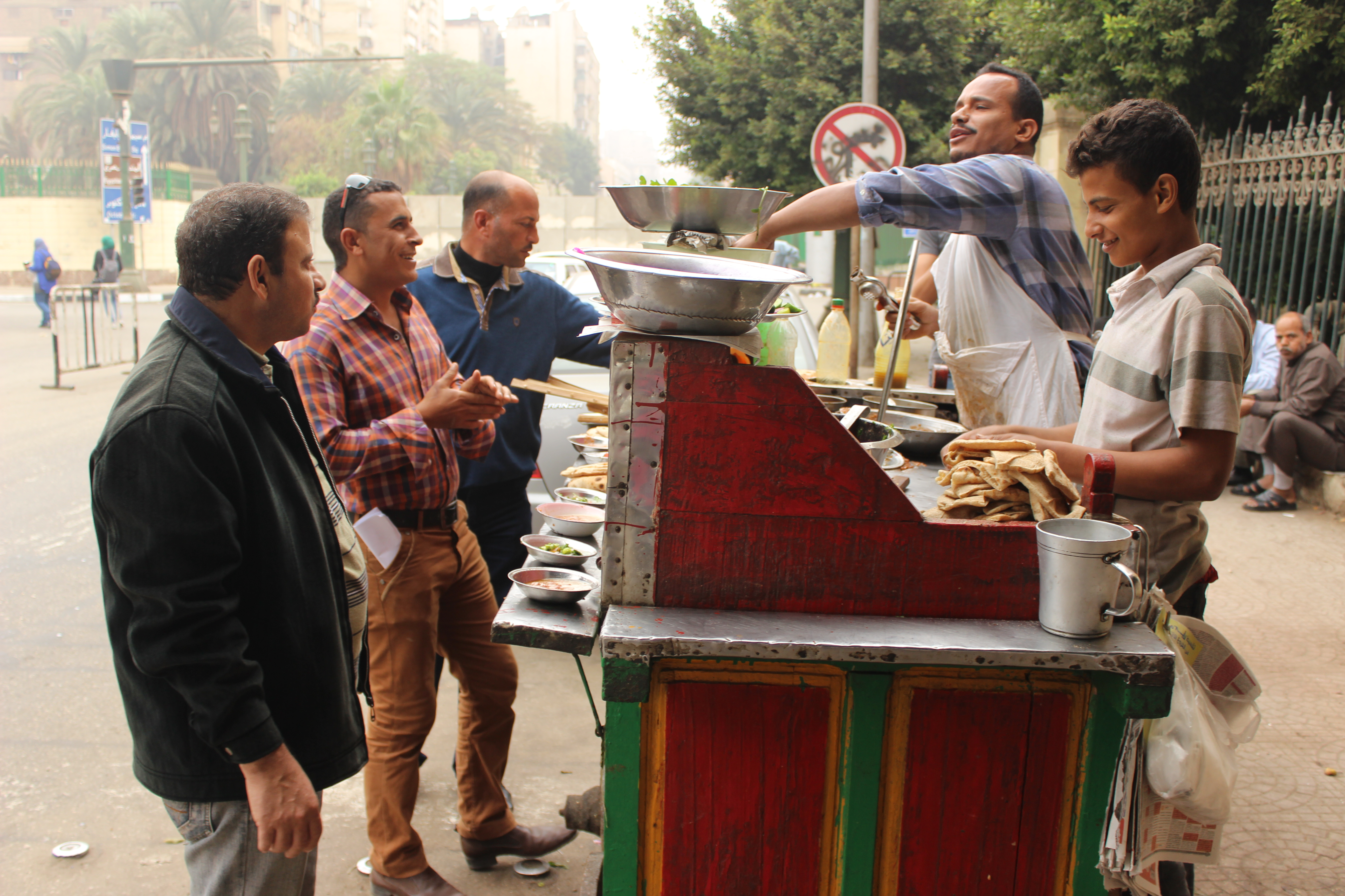 This is an image of food from Egypt